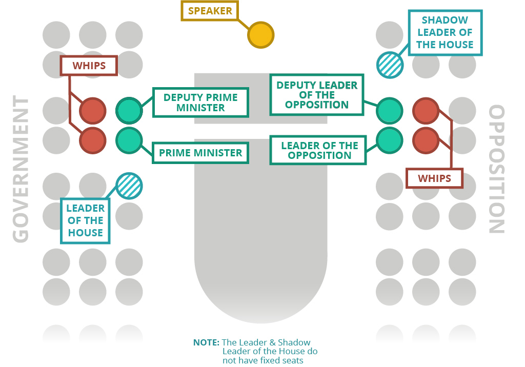 Graphical representation of the New Zealand House of Representatives' Debating Chamber, identifying certain seats labelled with the roles of the members who fill them.